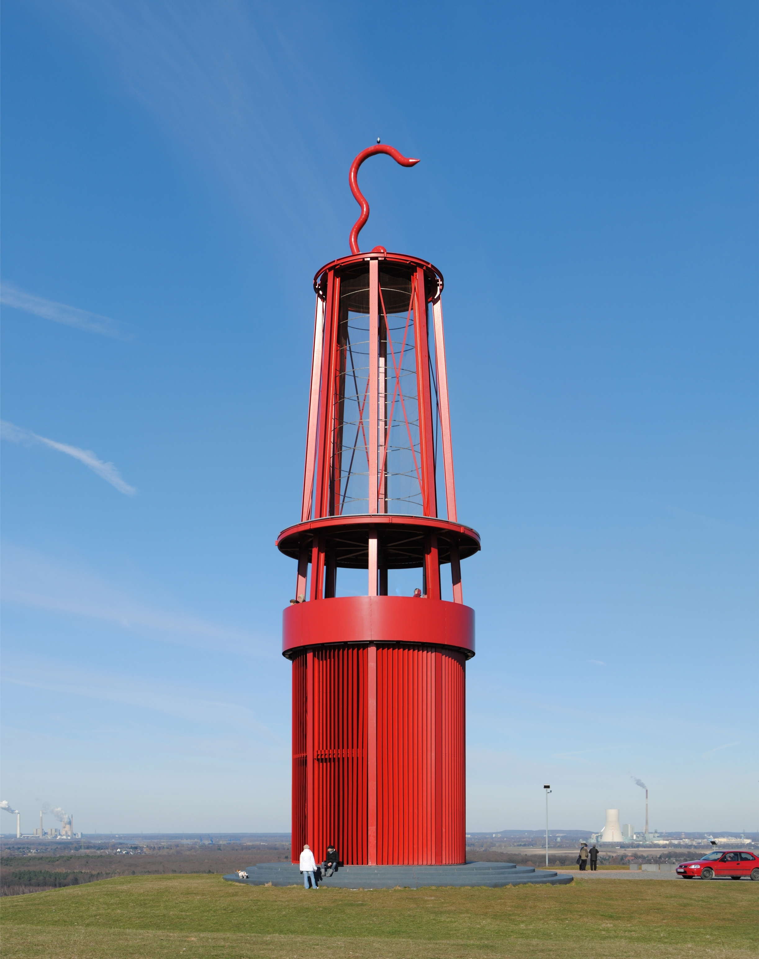 The mining lamp of the Halde Rheinpreußen (Moers, North Rhine-Westphalia, Germany). Stitching out of 15 images.